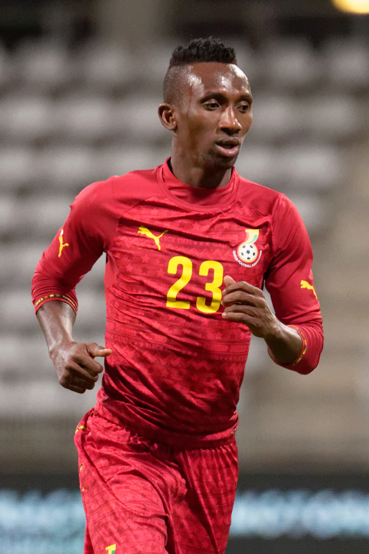 Mali vs Ghana, exhibition game at Paris, 31st March 2015.